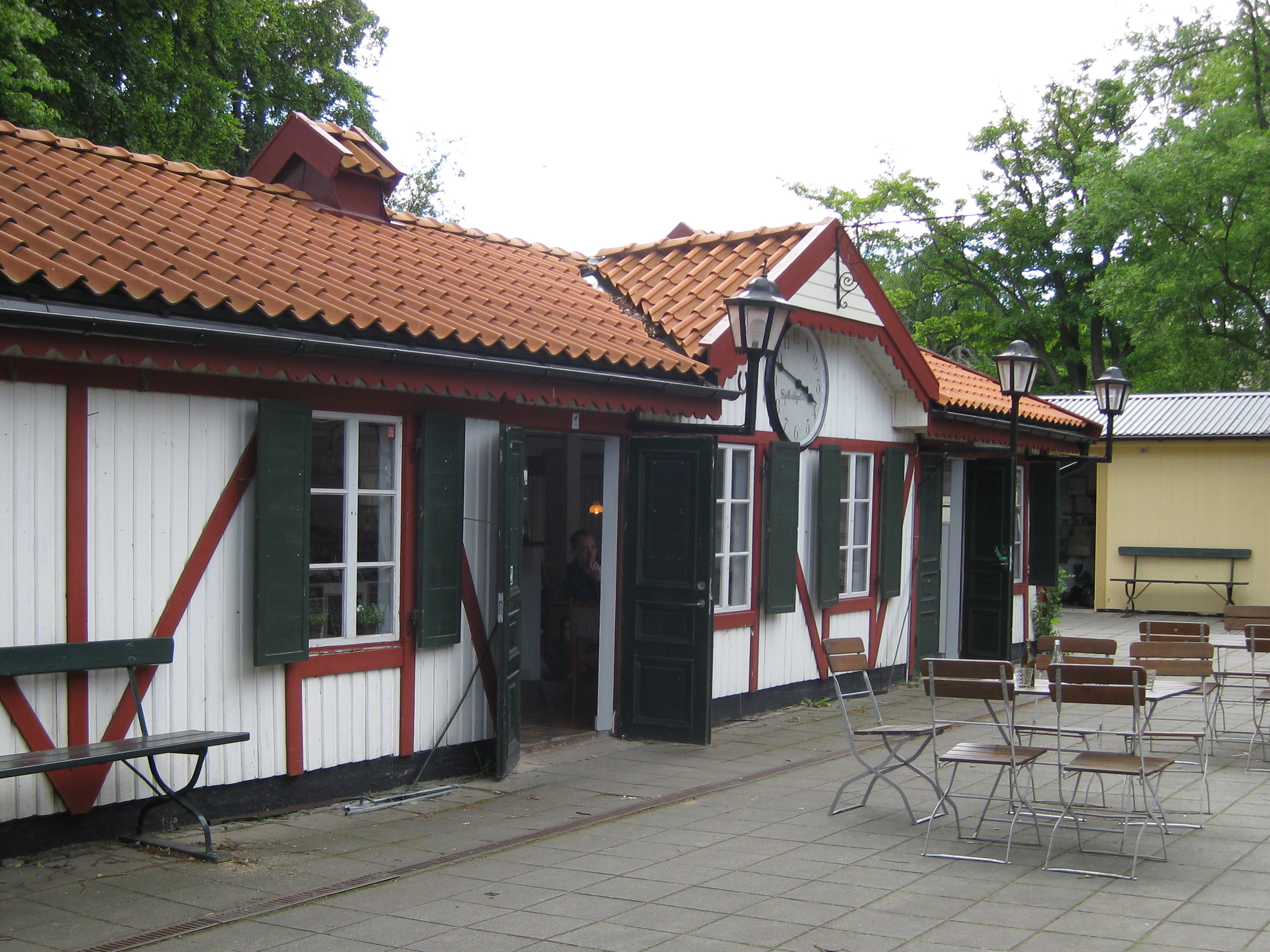 Far i Hatten, restaurant in Folkets Park, Malmö, Sweden